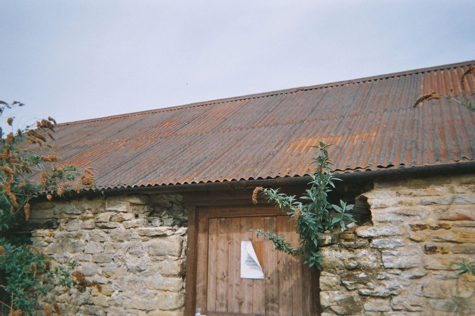 Building with a rusted corrugated iron roof.